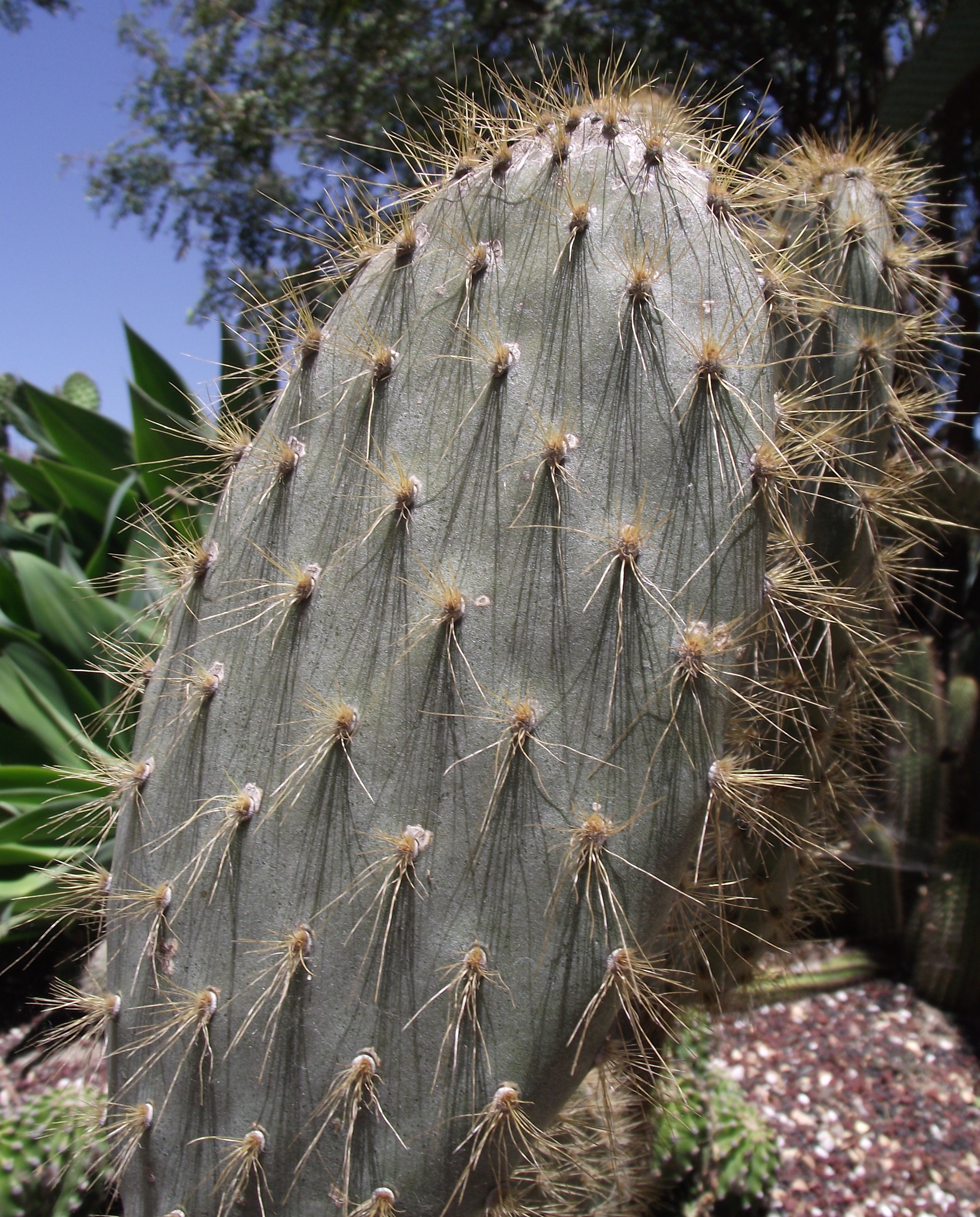 Opuntia helleri at the Los Angeles County Arboretum, Arcadia, California, USA. Identified by sign.